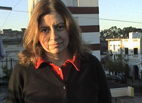 Beatriz Vignoli (Rosario, 1965), Argentine novelist, poet, journalist, translator, and art critic.